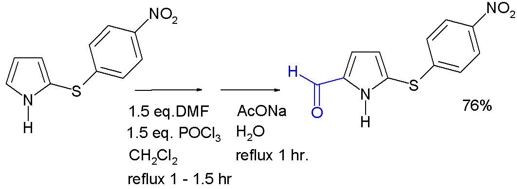 Formylation of a pyrrole derivative